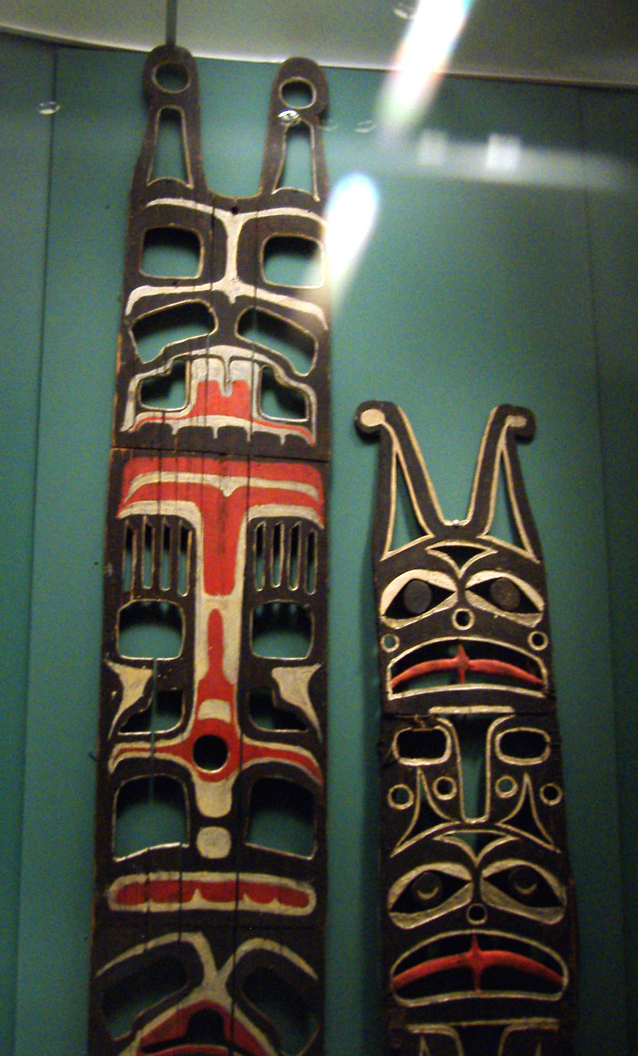 A Kwakiutl "power board"- an abstract Sisiutl invoked by a To'xwid dancer. Author: kabuto_7 DAte 4/23/07 Afrticle: Sisiutl